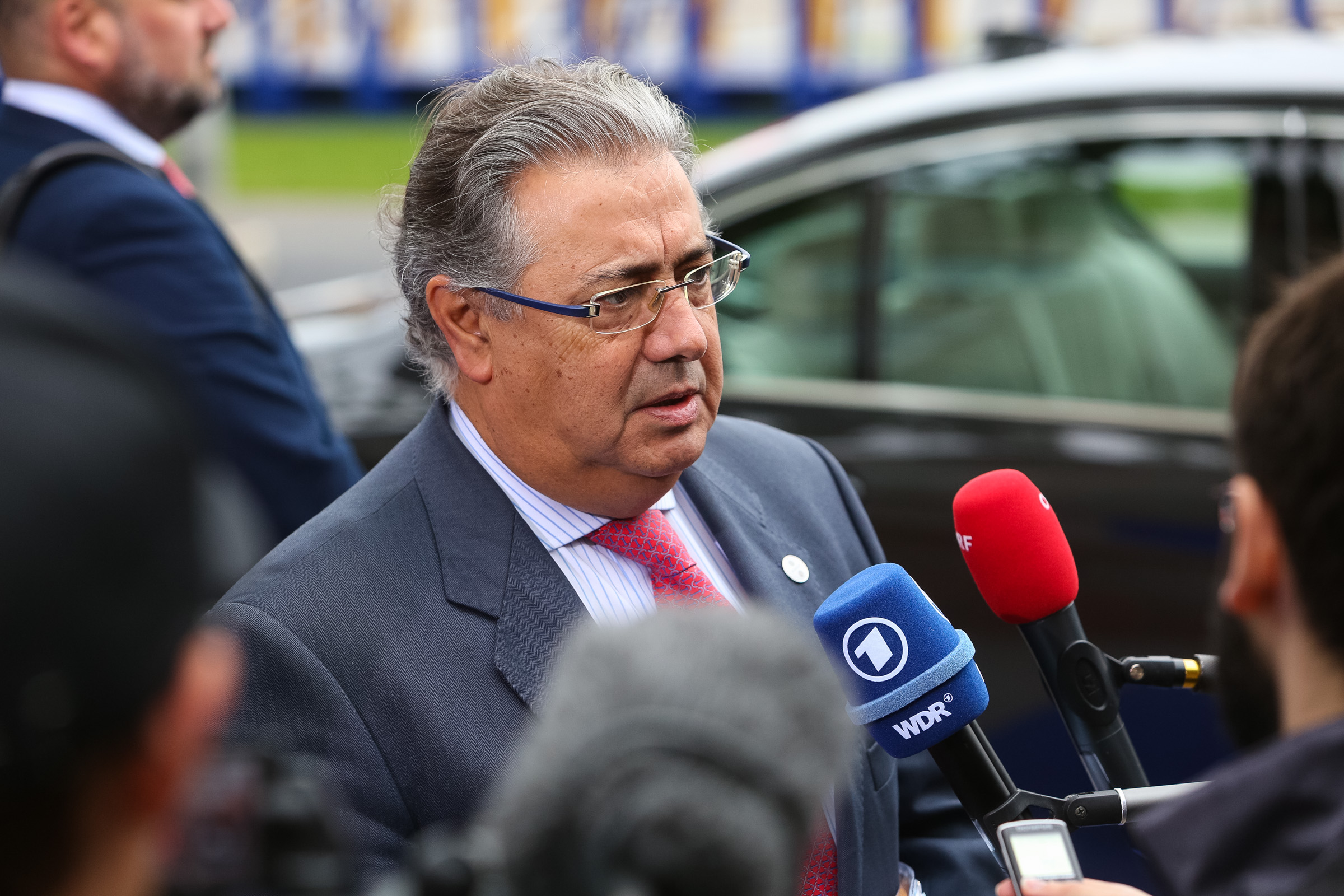 Juan Ignacio Zoido, Minister, Ministry of Interior, Spain